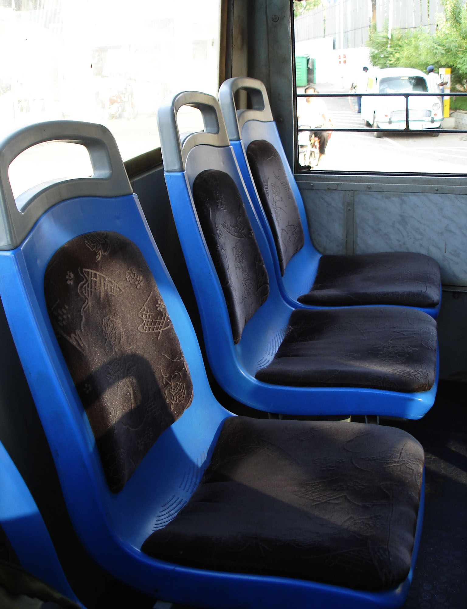 The plastic seats of a blue line MTC (Chennai) bus.